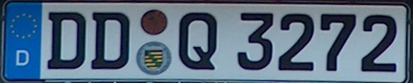 License plate of a police car from Saxony, Germany